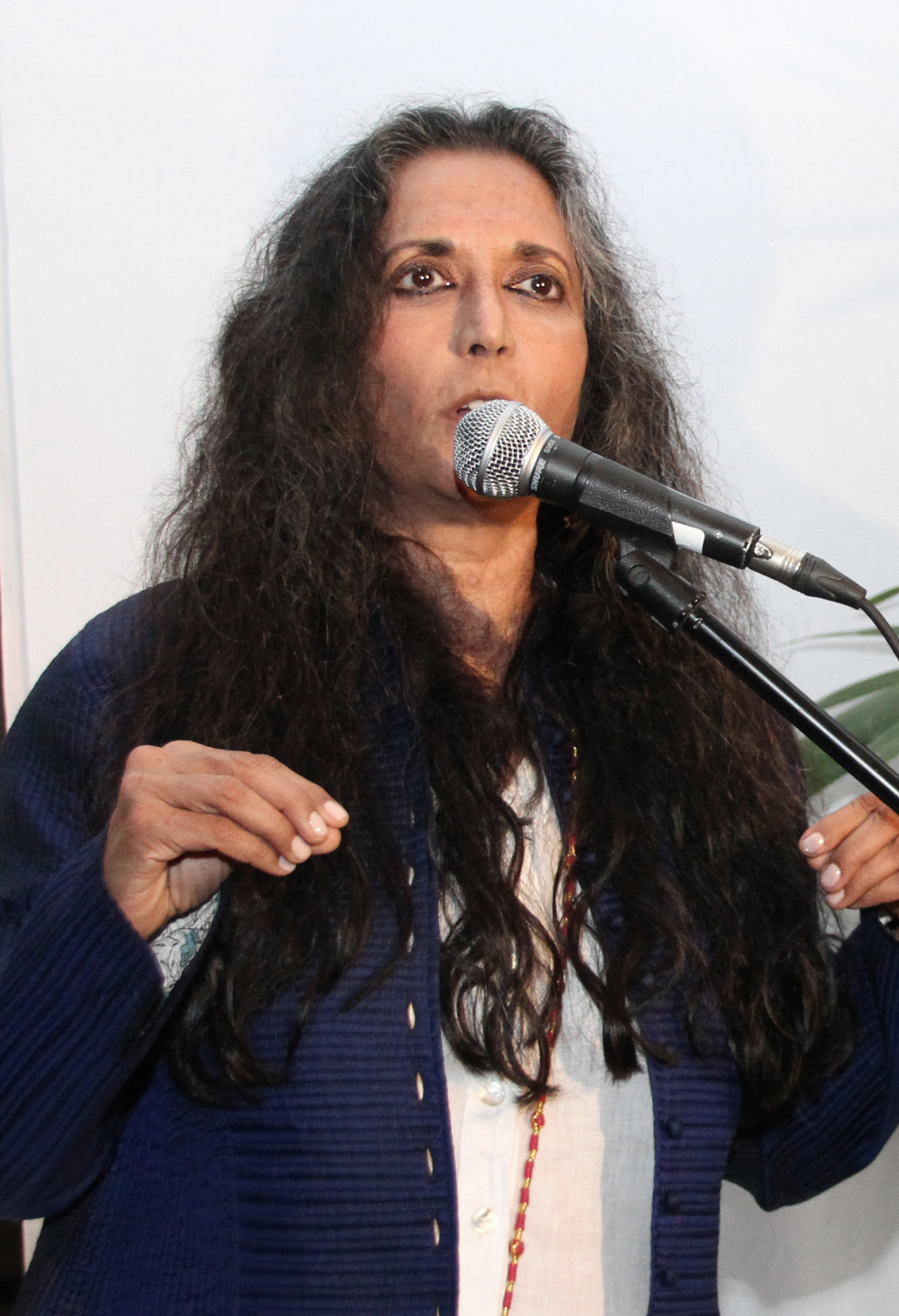 Deepa Mehta at the 7th Annual Canadian Filmmakers’ Party